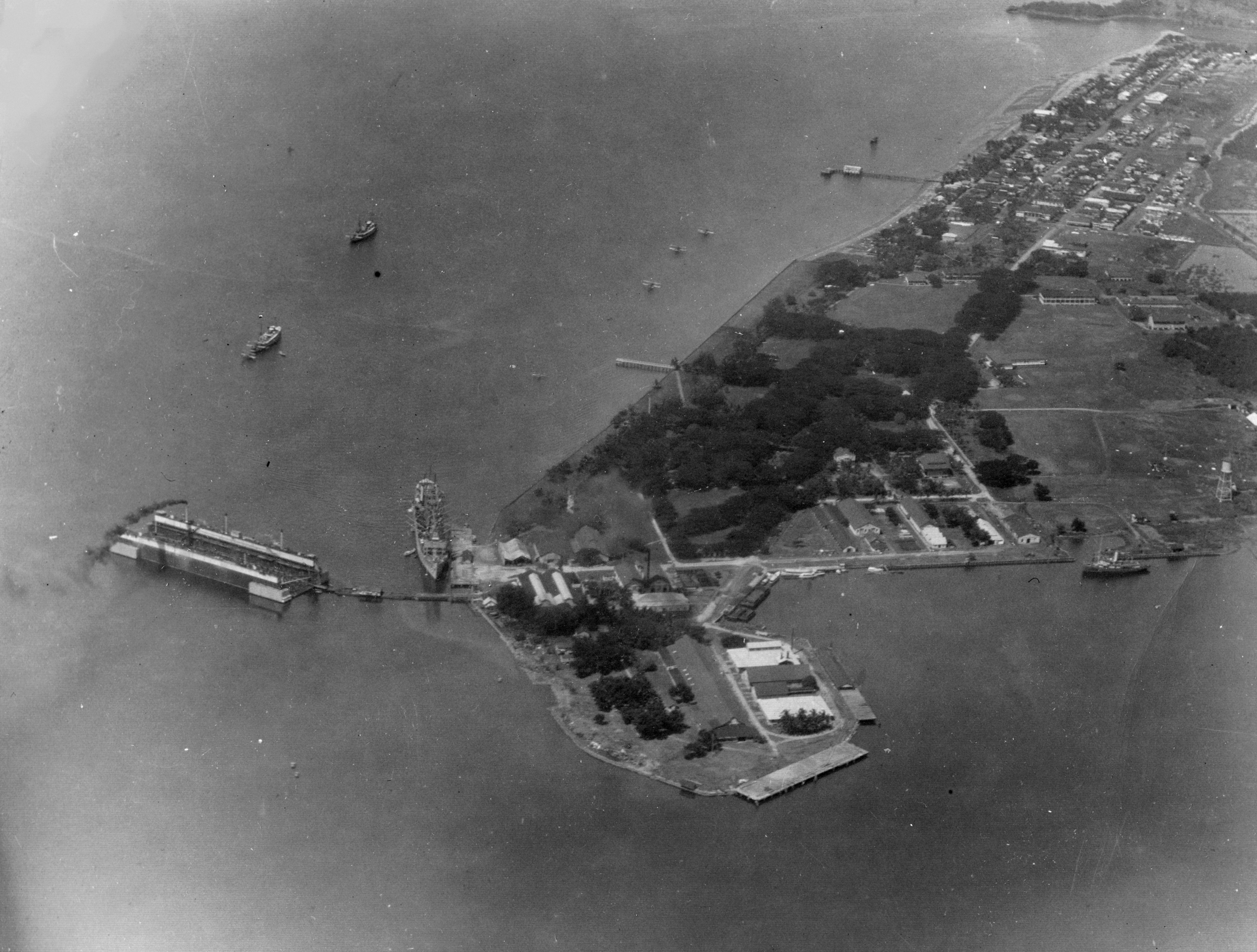 Aerial view of the Olongapo Naval Station (later the U.S. Naval Base Subic Bay) in the Philippine Islands in October 1928, showing the aircraft squadrons of the Asiatic Fleet. The Dewey Drydock is at the left, with the USS Jason nearby.